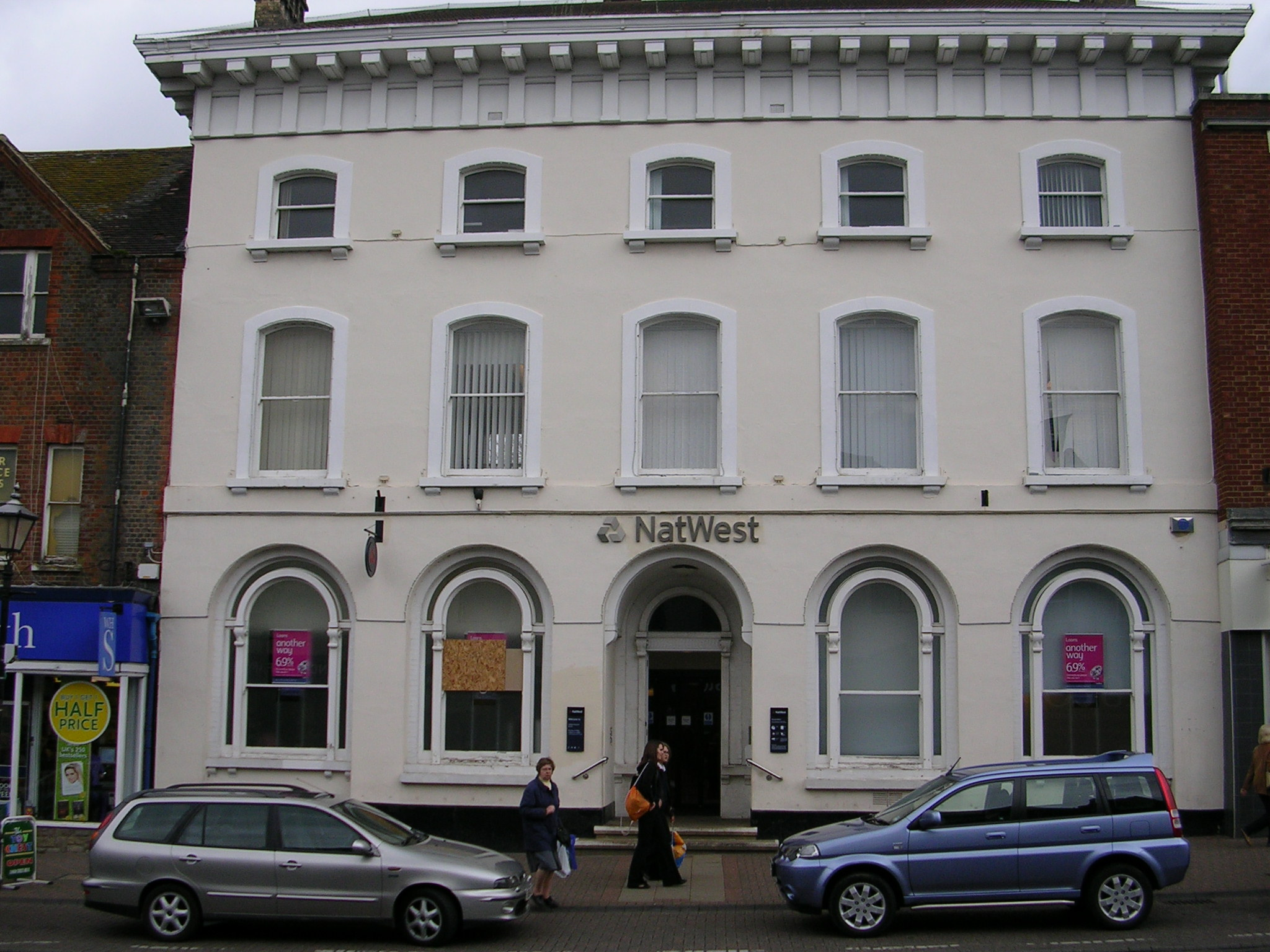 NatWest Bank. Leighton Buzzard, Bedfordshire. Photograph taken by uploader with a digital camera 20th April 2006.